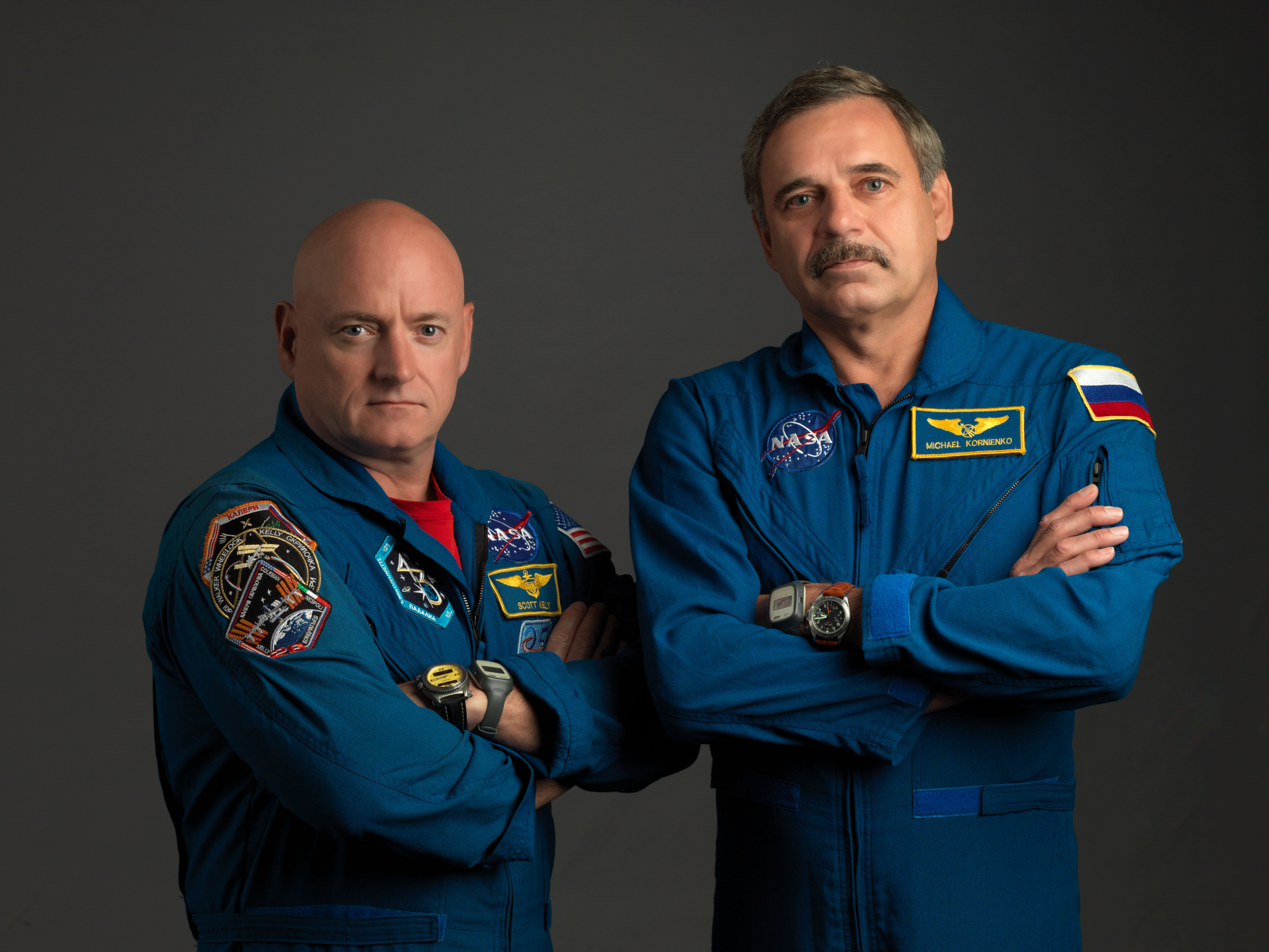 NASA astronaut Scott Kelly (left), Expedition 43/44 flight engineer and Expedition 45/46 commander; and Russian cosmonaut Mikhail Kornienko, Expedition 43-46 flight engineer, take a break from training at NASA's Johnson Space Center to pose for a portrait.